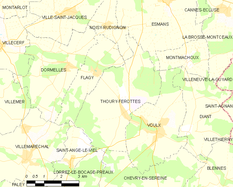 Map of French municipality Thoury-Férottes